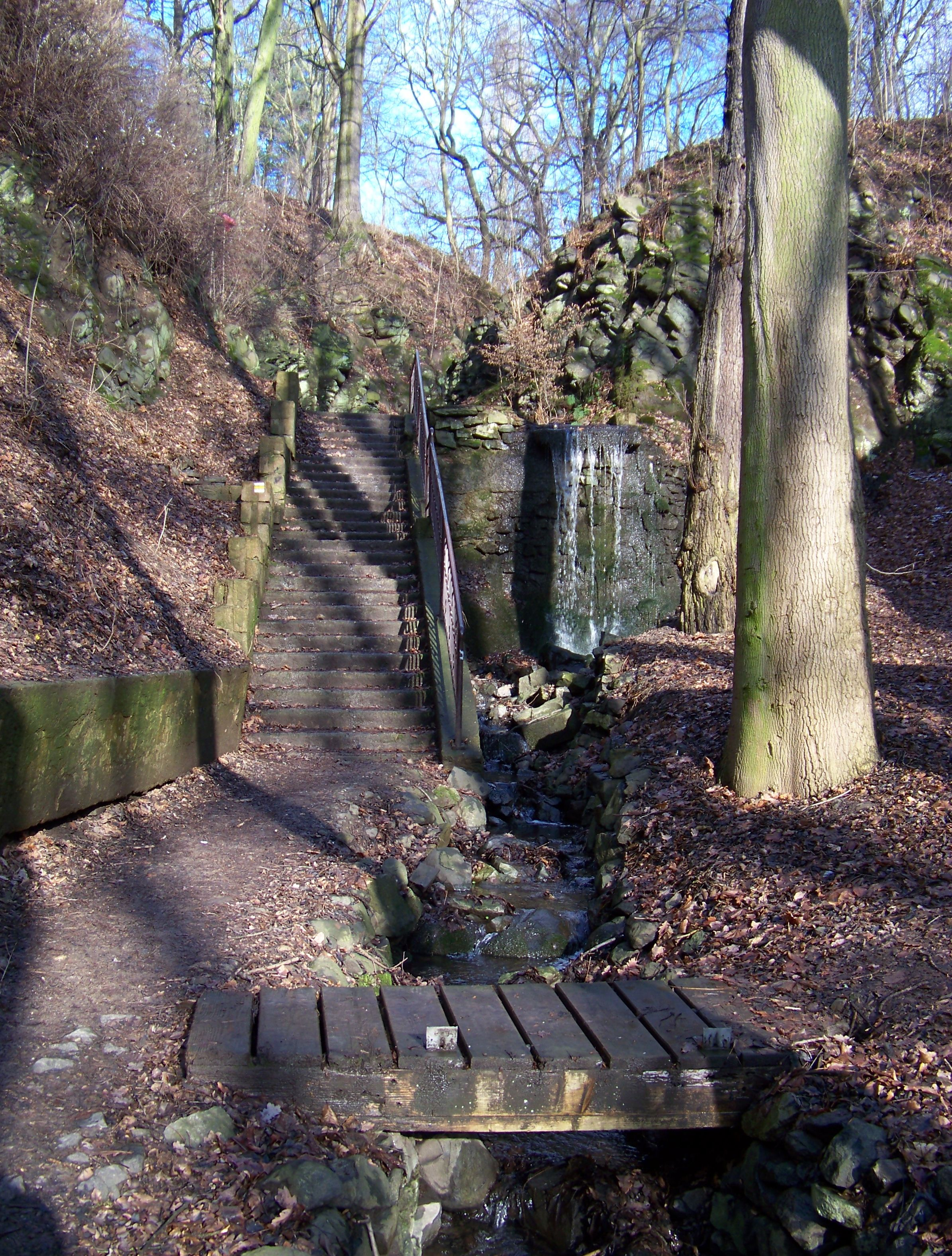 Ústí nad Labem, the Czech Republic. Berta Valley, a waterfall on Stříbrnice Creek.